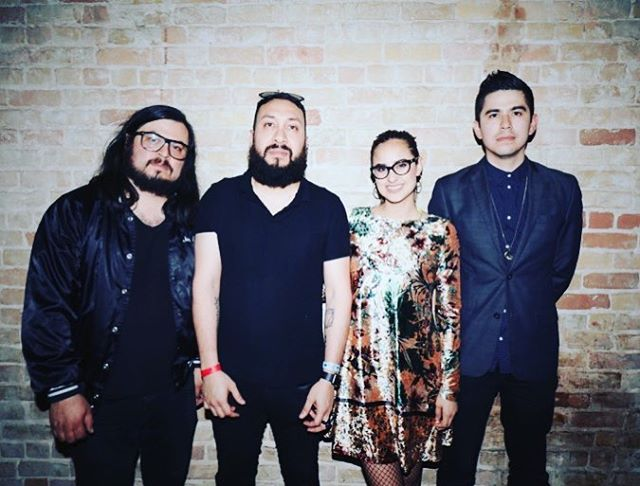 Manuel, Hector, Paulina, Bustillos